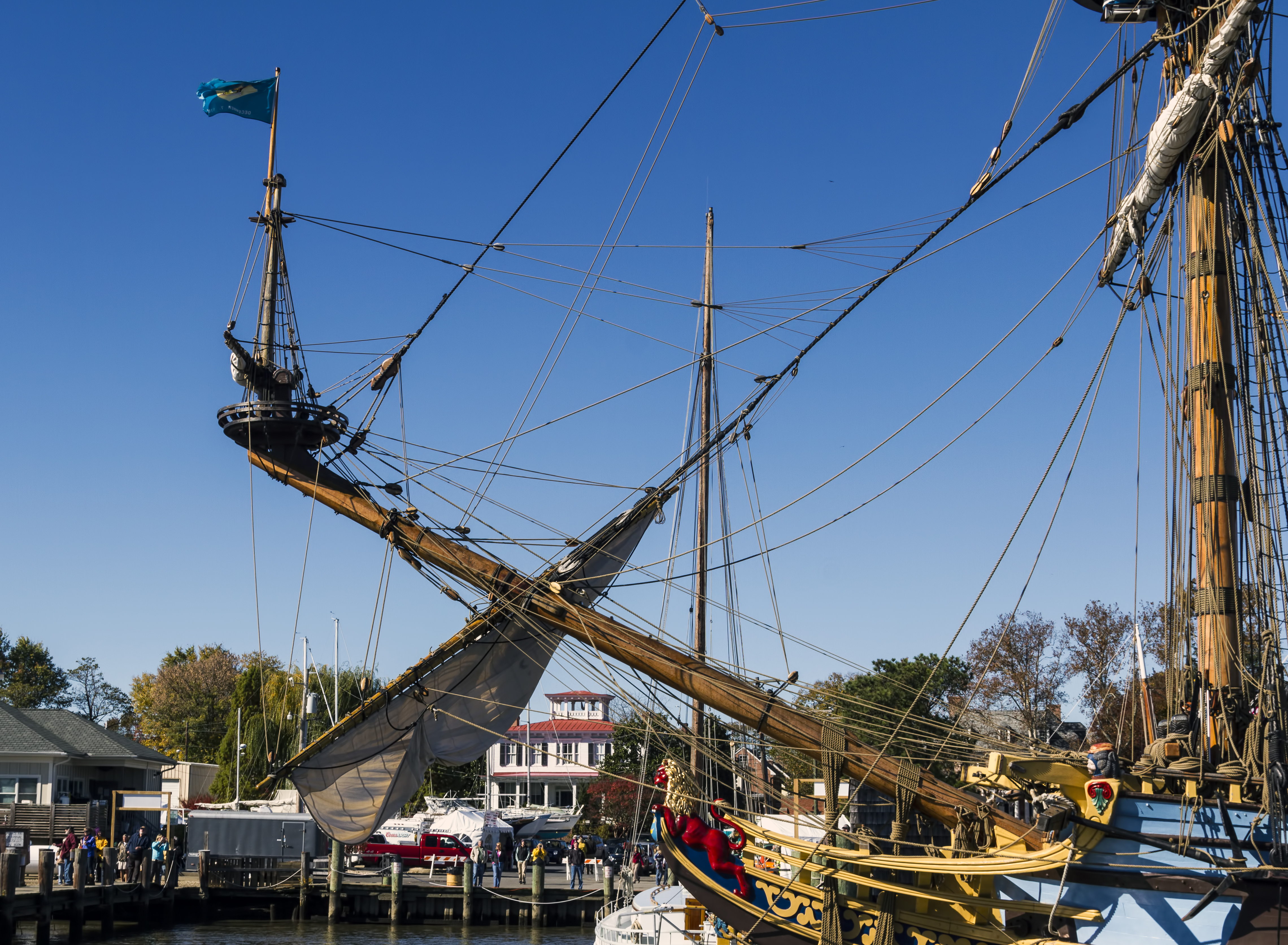 The sprit topmast and spritsail of the Kalmar Nyckel at Chestertown, Maryland, USA